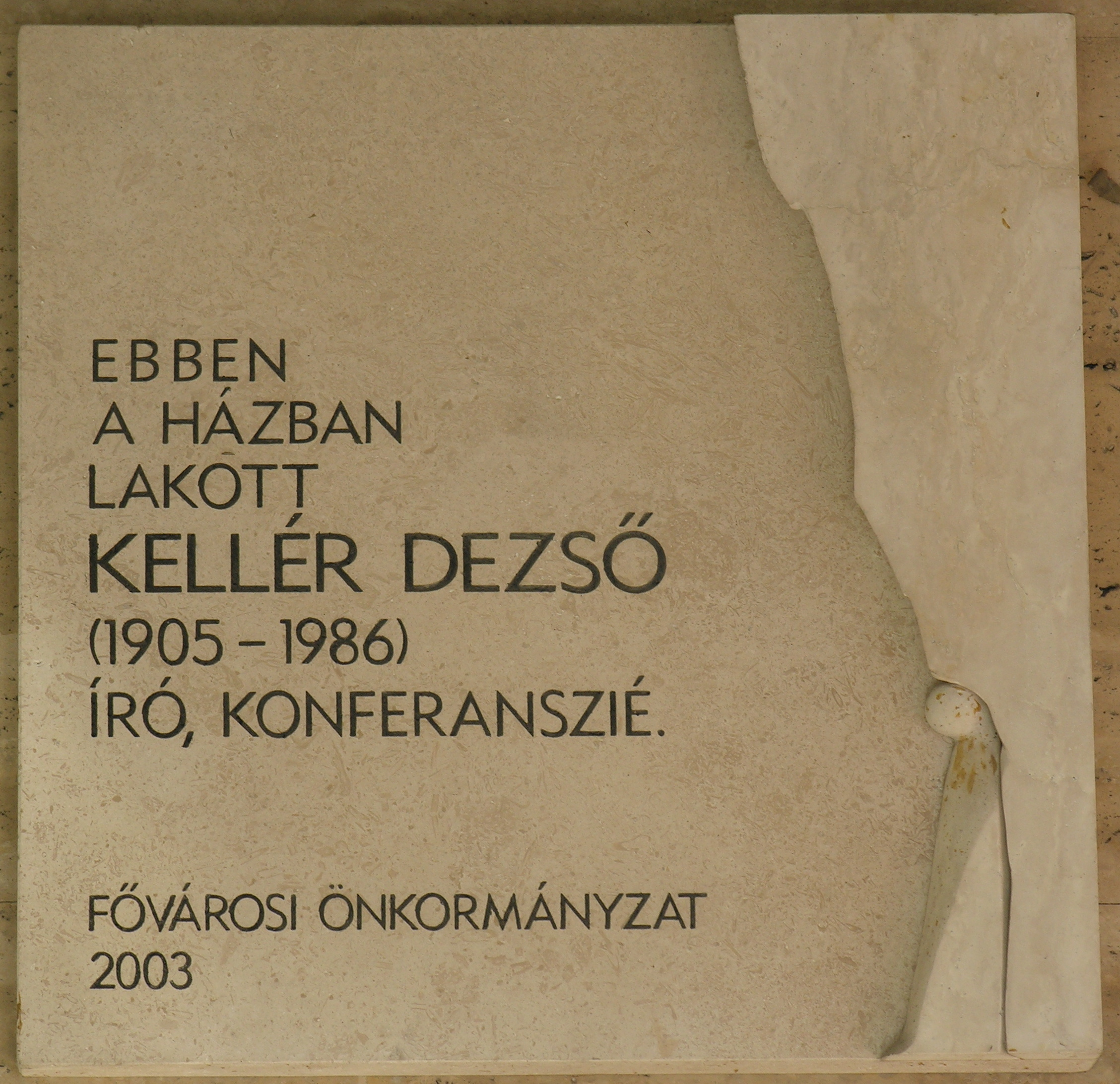 Commemorative plaque of Dezső Kellér in Budapest District XIII, Katona József Street No 35